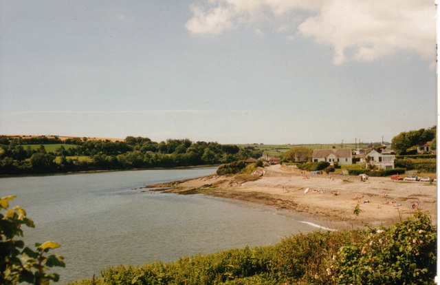 Ringabella Bay, near to Myrtleville, Kilbeg and Ballinluska, Cork, Ireland. Looking at Fountainstown Community website